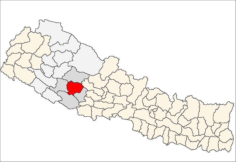 FrenchCarte de localisation dudistrict de Rolpa(wp-FR),au Népal (wp-FR).EnglishLocation map ofRolpa District(wp-EN),in Nepal (wp-EN).